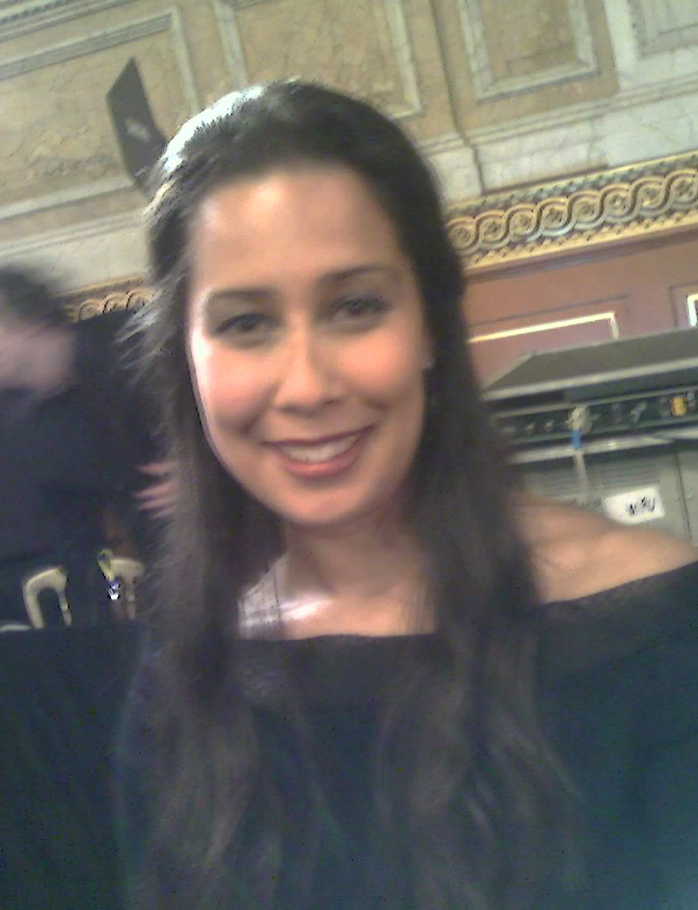 American operatic soprano, Monica Yunus, after a 2007 performance.